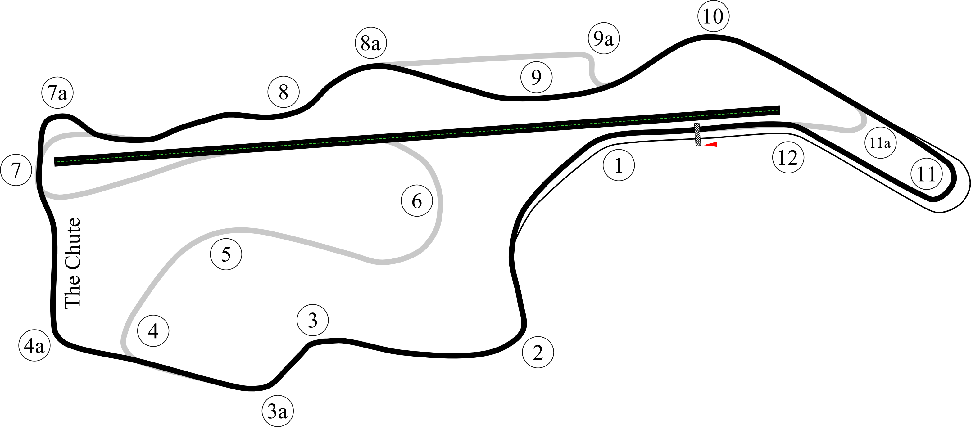 Track map of Sonoma Raceway. This PNG version is for those with browsers like IE7 that don't support SVG and emphasizes the NASCAR track.